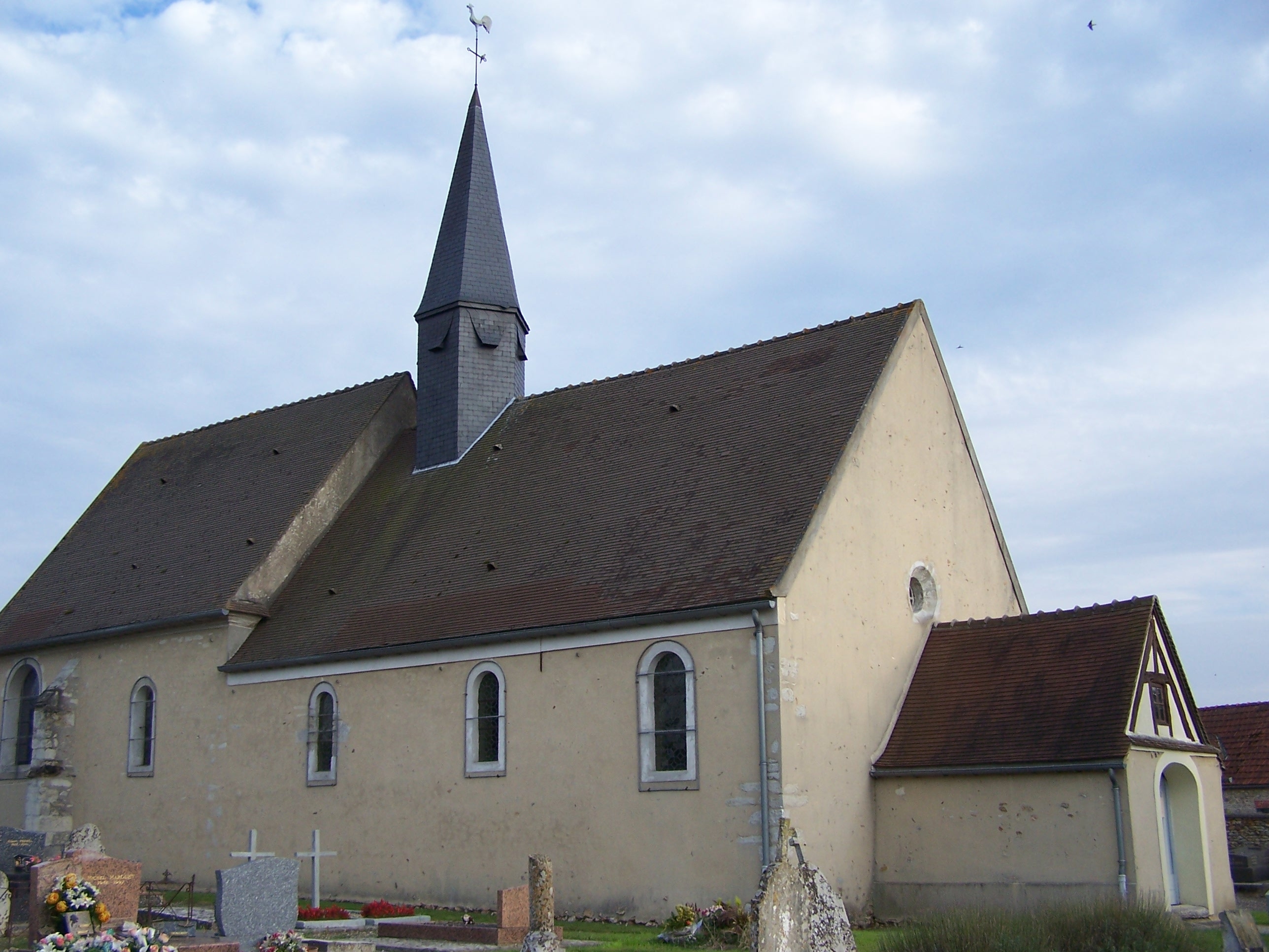 Church of Villiers-le-Mahieu (Yvelines, France)